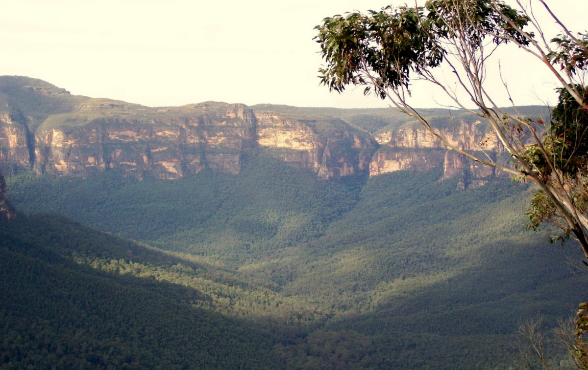 Perrys Lookdown, Blue Mountains National Park, NSW Australia